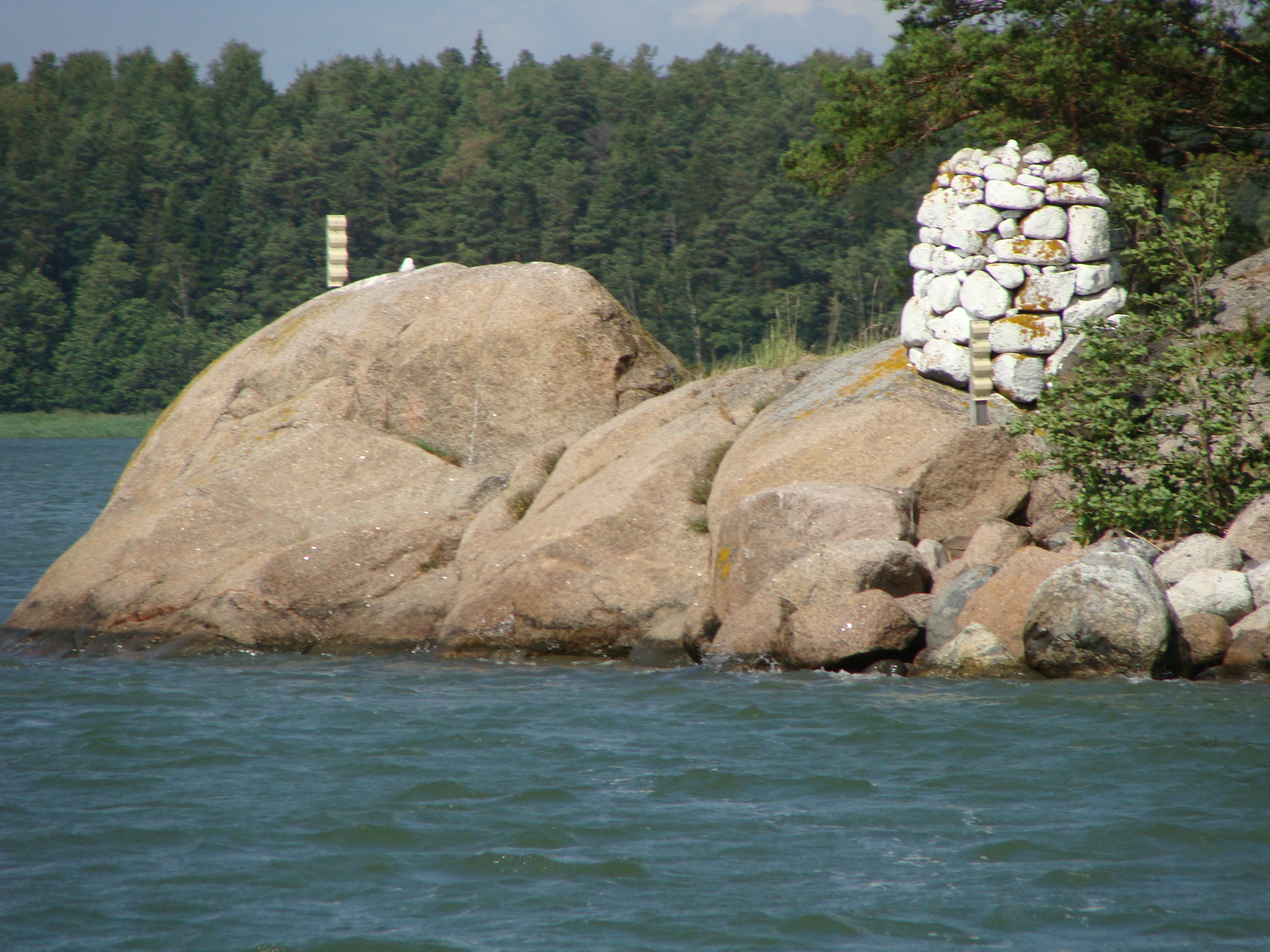 A sea cairn (navigational aid) on an islet northwest of Vasikkaluoto island in Northern Archipelago Sea in Finland.